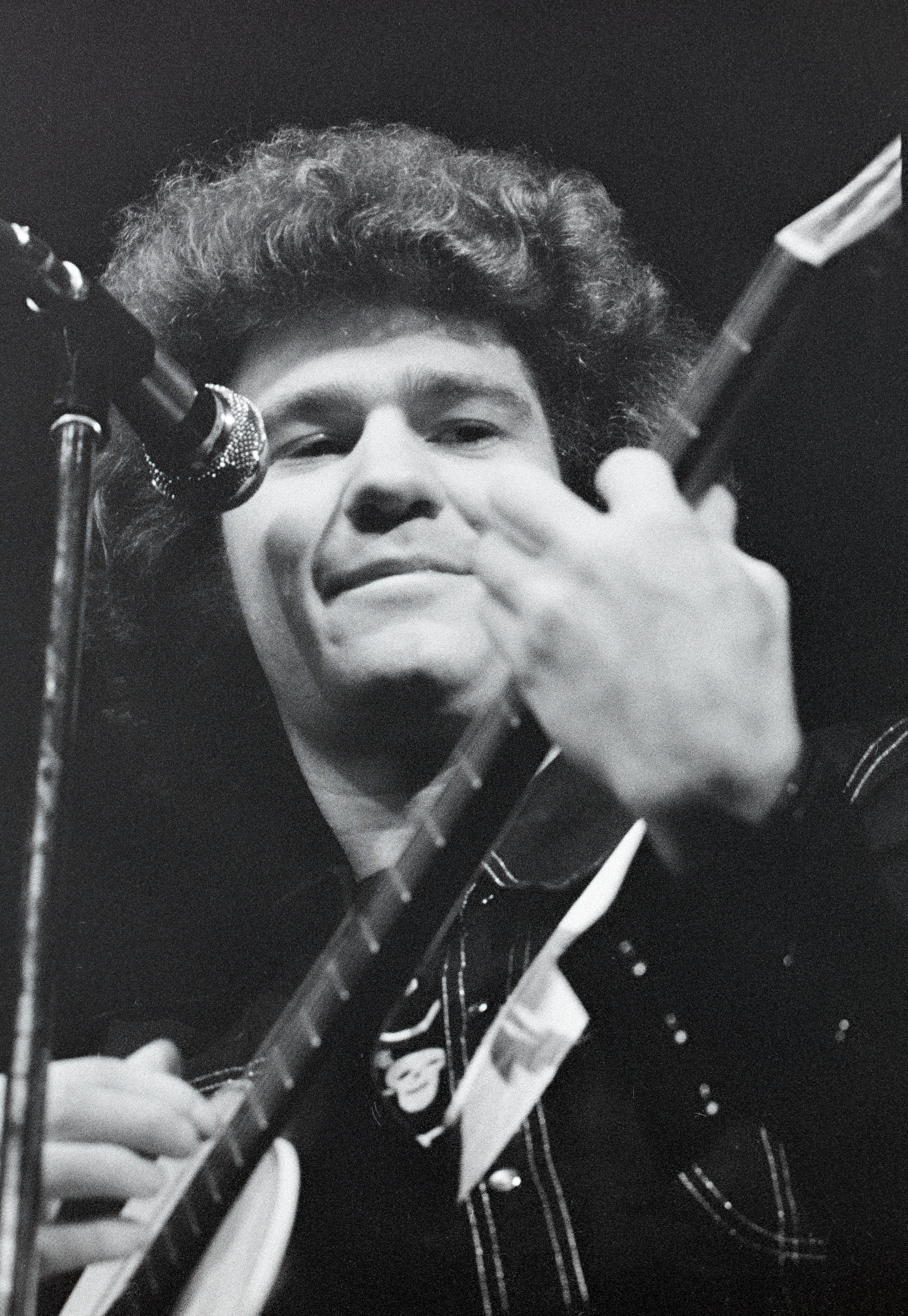 Robert Charlebois in 1972 at Maisonneuve College in Montreal. Supplementary technical data: digitization from the original 35mm negative. Original camera: Nikon F with 135 Vivitar lens lens.